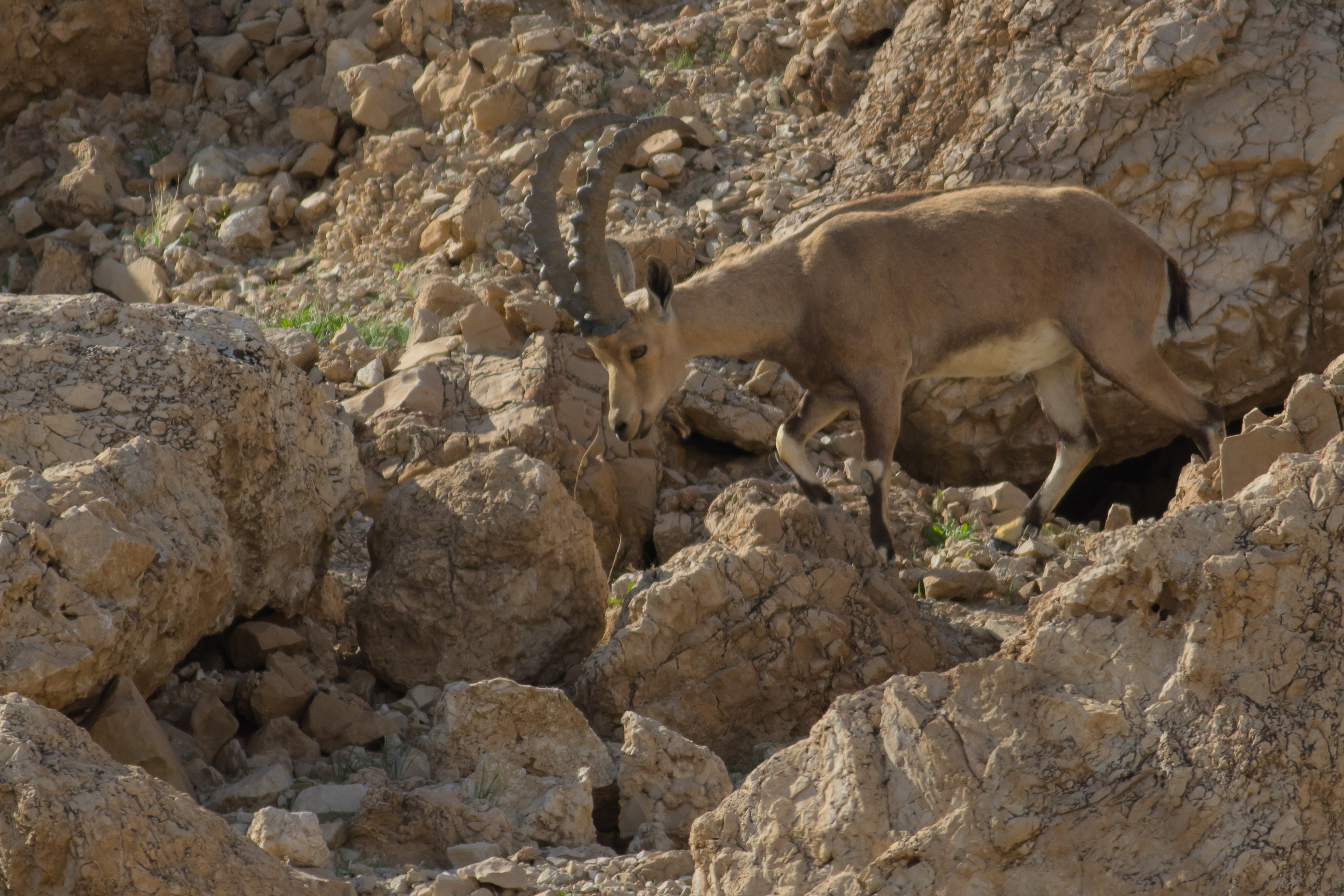 Nubian ibex (Capra nubiana), Israel